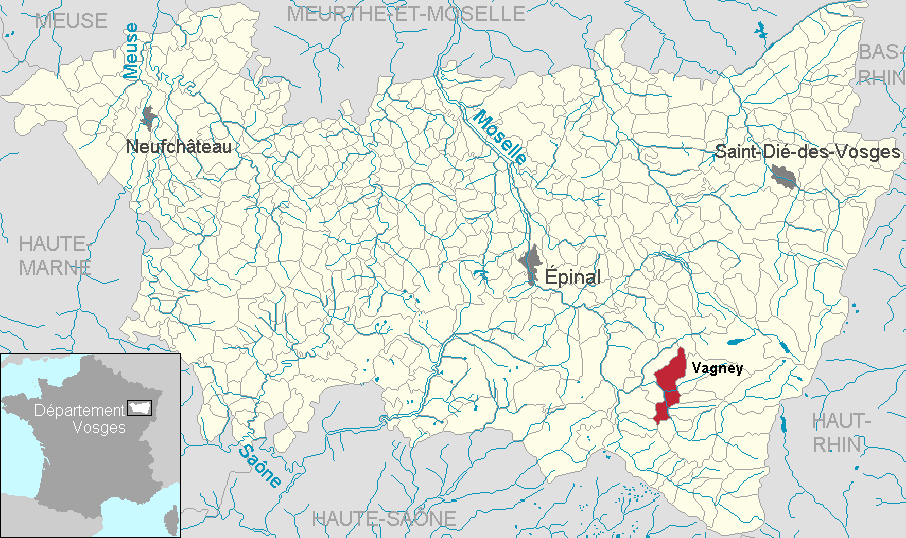 Vagney in the department of Vosges, Lorraine, France